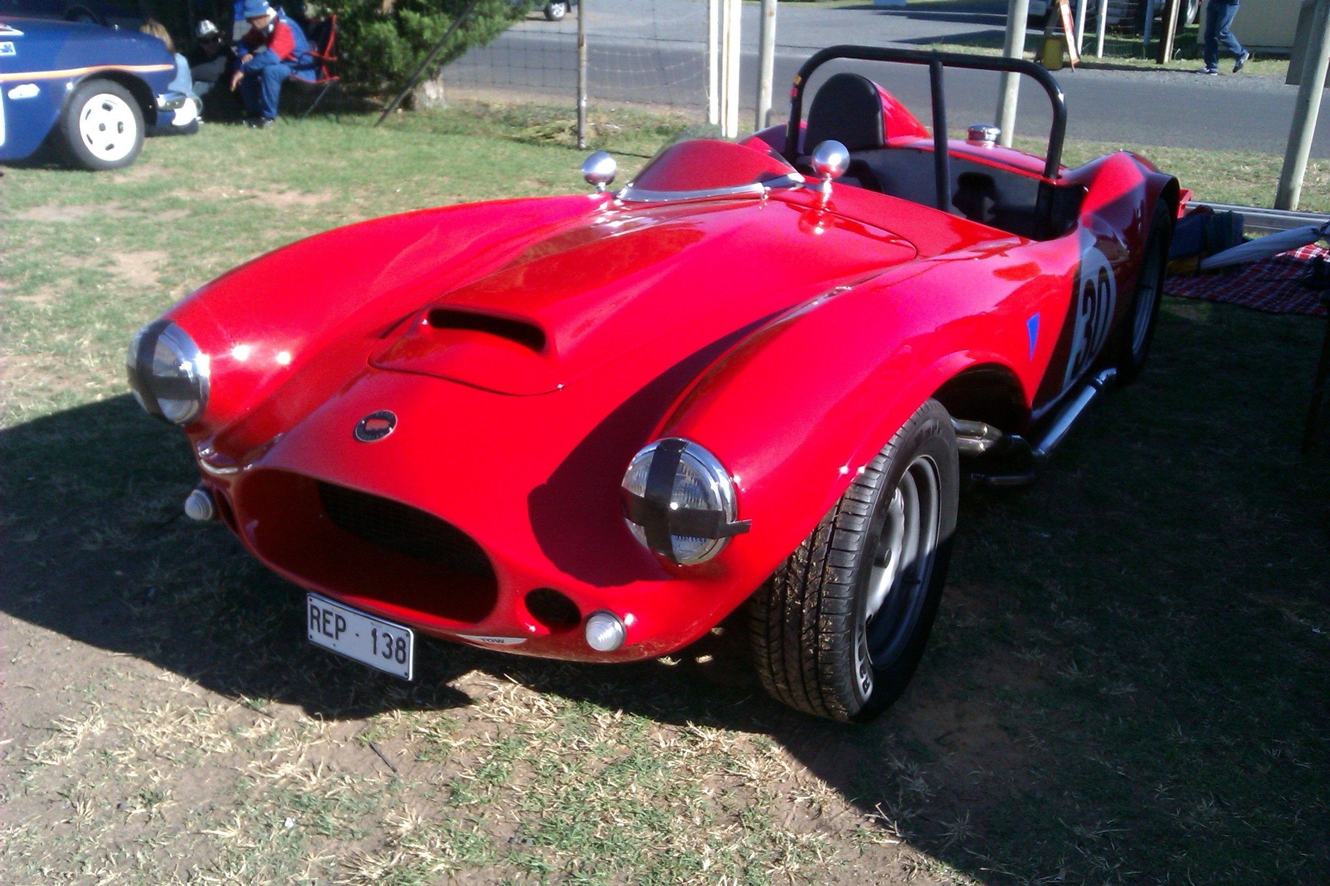 The Repco Ricardian of Mark Scott. Built in 1958 and powered by a Holden straight-six motor, the car was driven by John Newmarch in the 1961 Australian Grand Prix, but it did not finish. Newmarch also drove the car in the 1962 Australian Tourist Trophy, placing third. The car is pictured at Mallala Motor Sport Park in 2012.